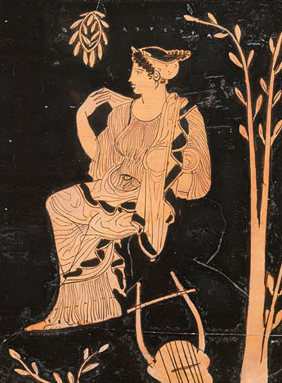 Museum of Fine Arts, Boston; Catalogue No. Boston 03.821; Attic Red Figure, Amphora